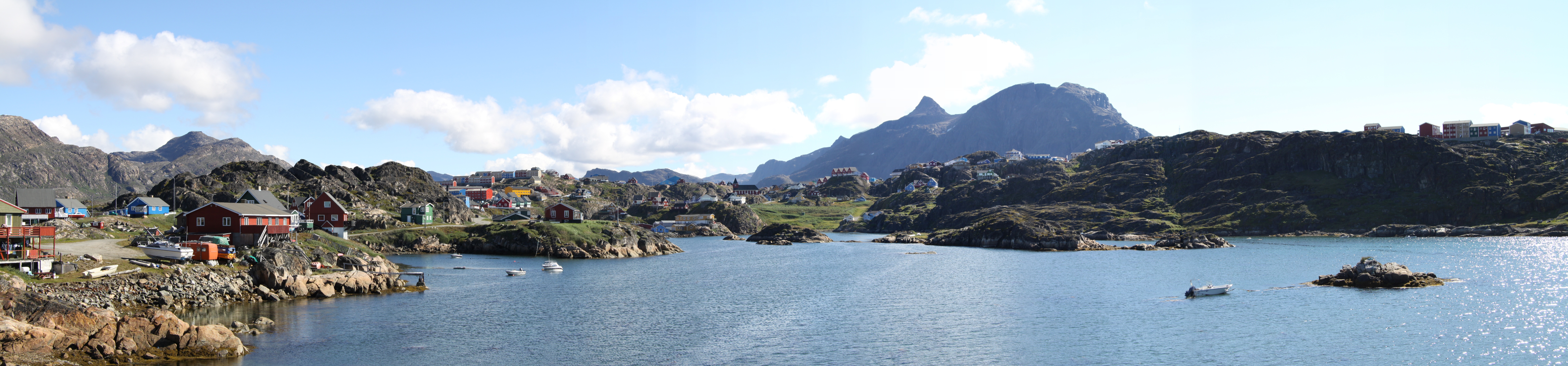 Panorama of Sisimiut, Greenland